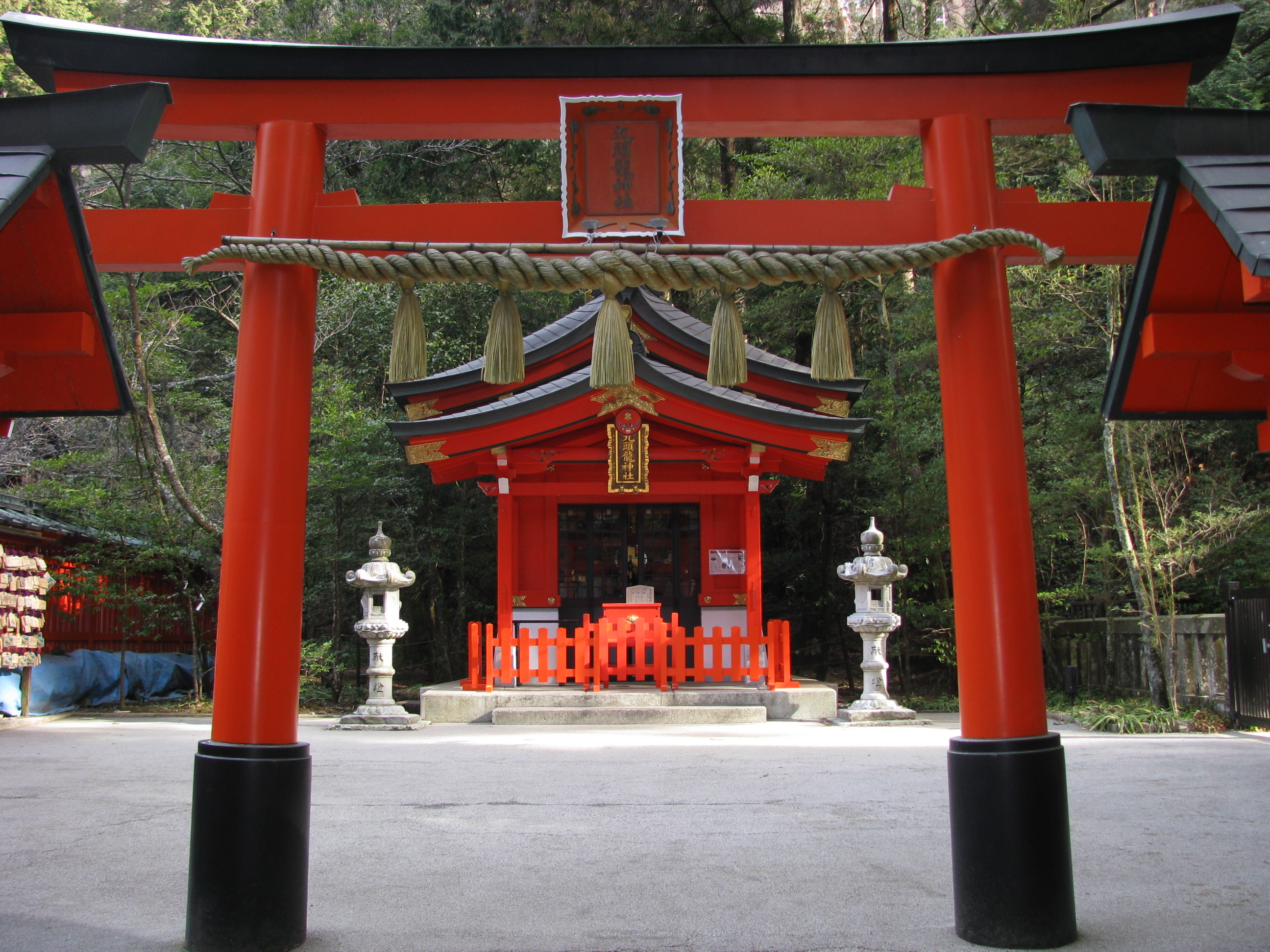 The Kuzuryū-jinja. This place is Hakone, Ashigarashimo District, Kanagawa Prefecture, Japan.